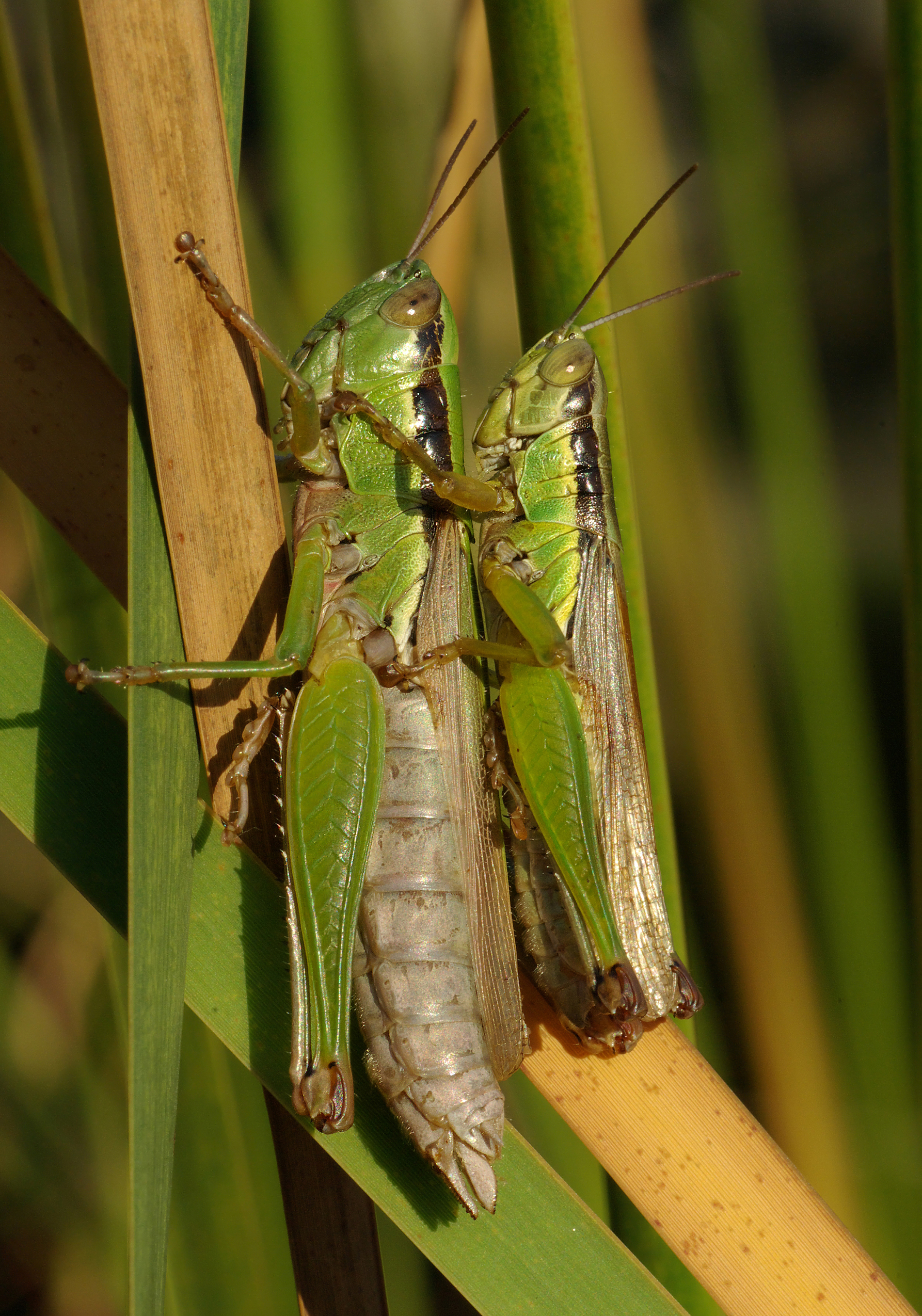 Locust. This picture was taken at Osaka, Japan.